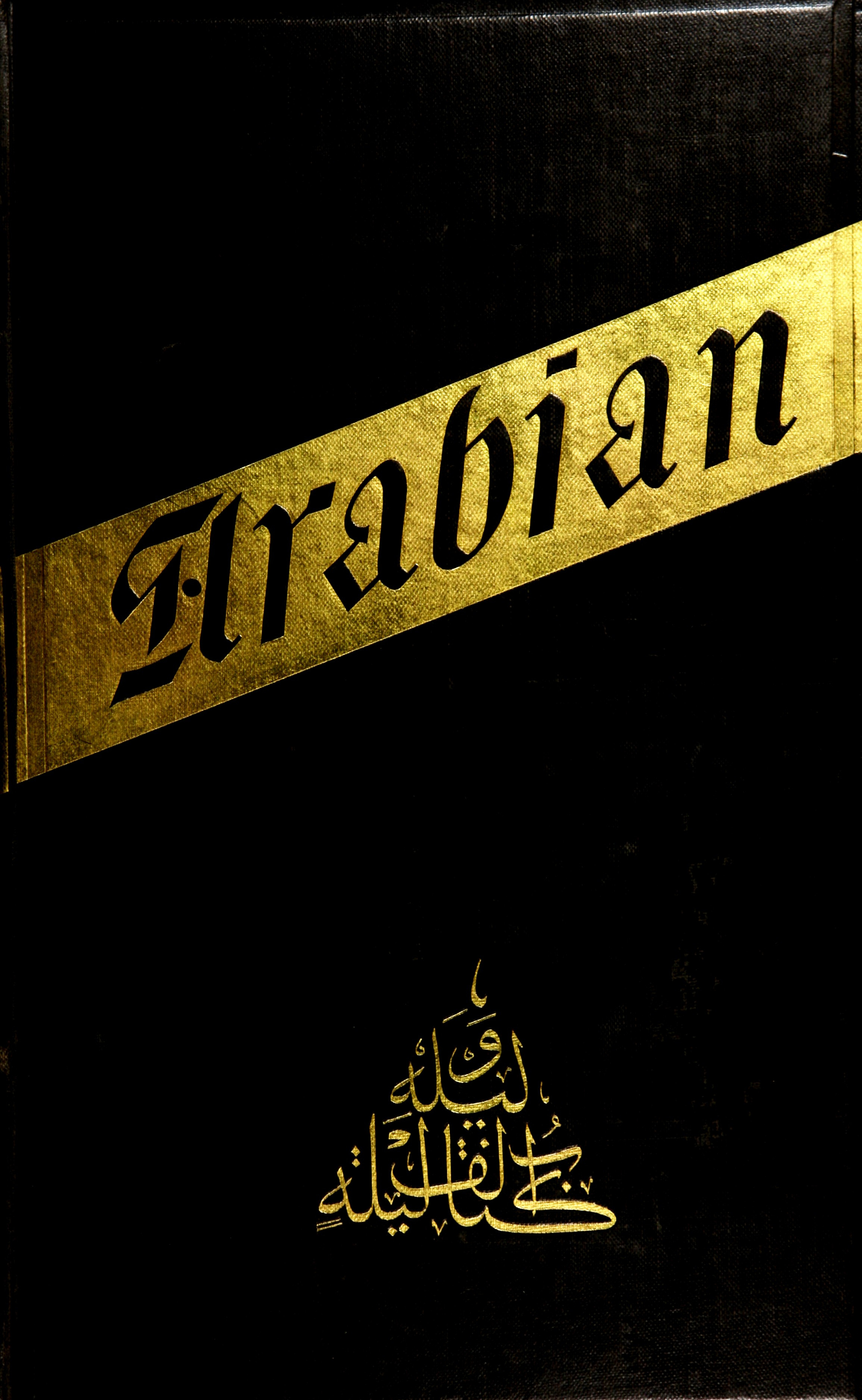 Cover of The Book of the Thousand Nights and a Night translated by Richard Francis Burton, first edition: published by the Karmashastra Society.